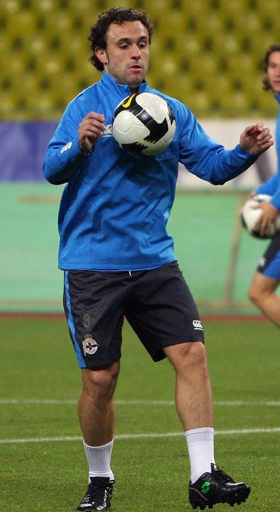 Sergio González